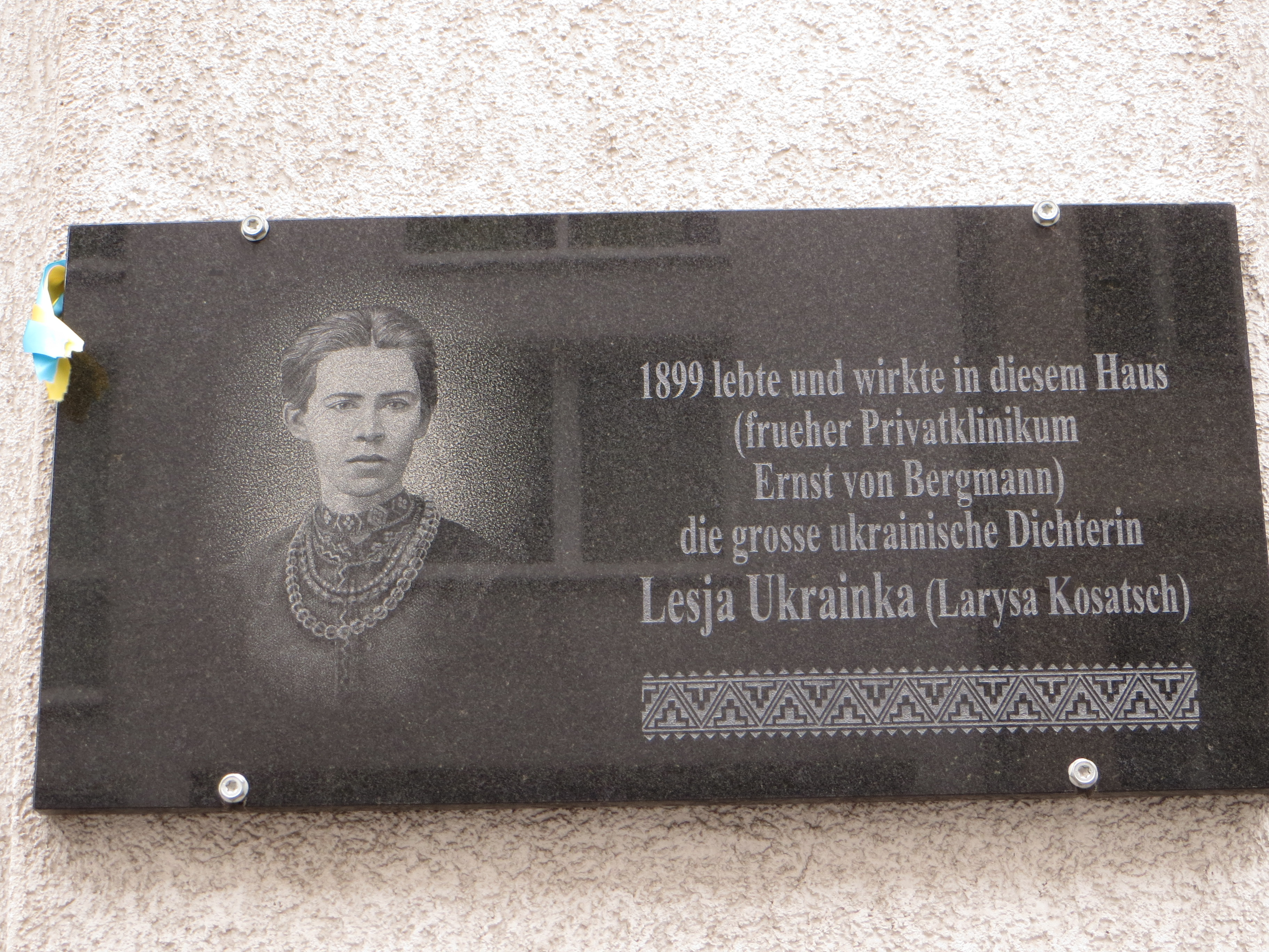 Lesya Ukrainka plaque in Berlin, Johannisstrasse 11